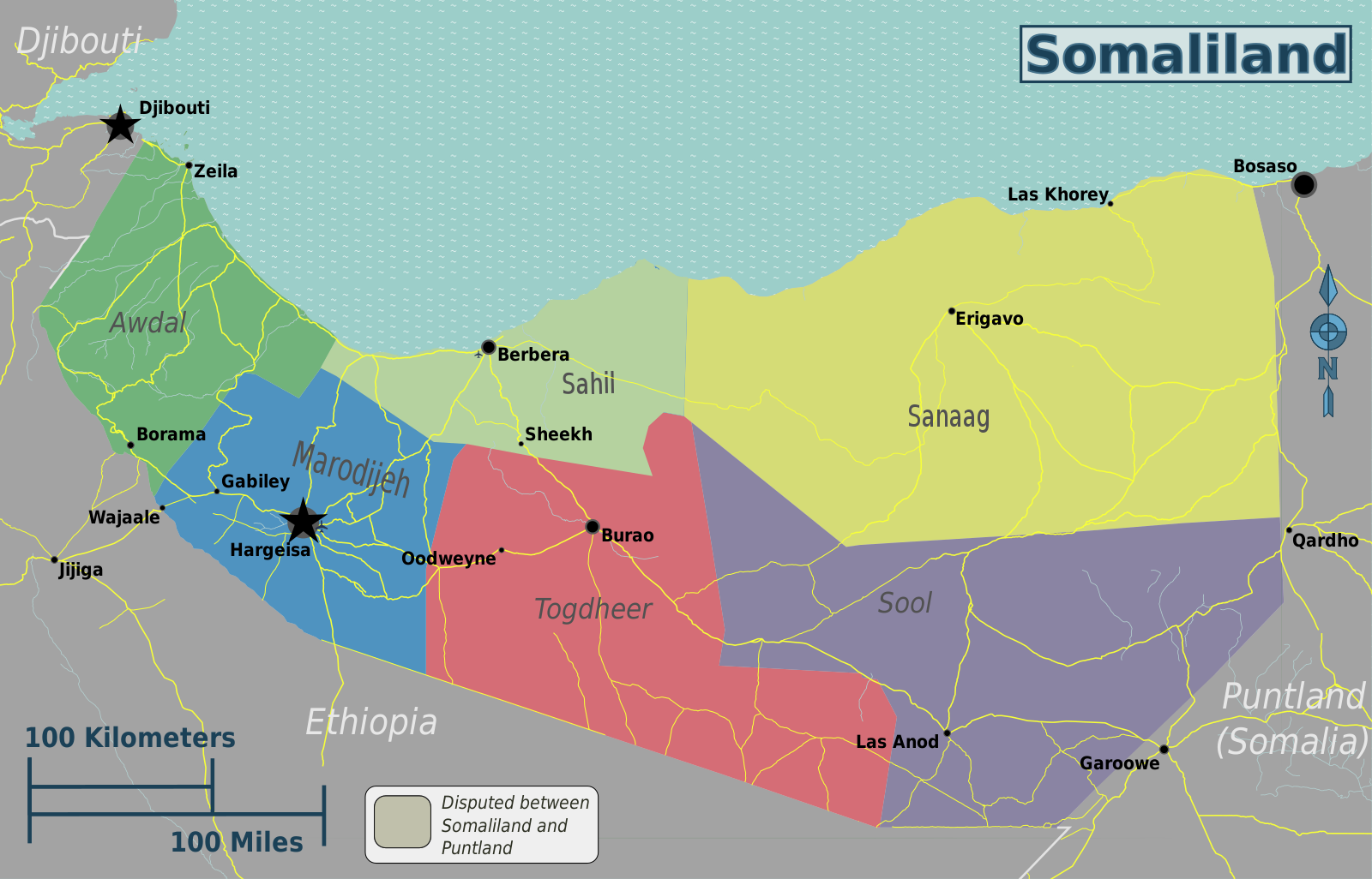 Somaliland regions map. English version, Somaliland Map of: Somaliland¤.